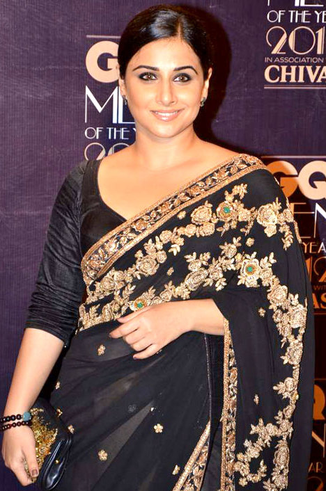 Vidya Balan at the GQ Men of the year awards, 2012